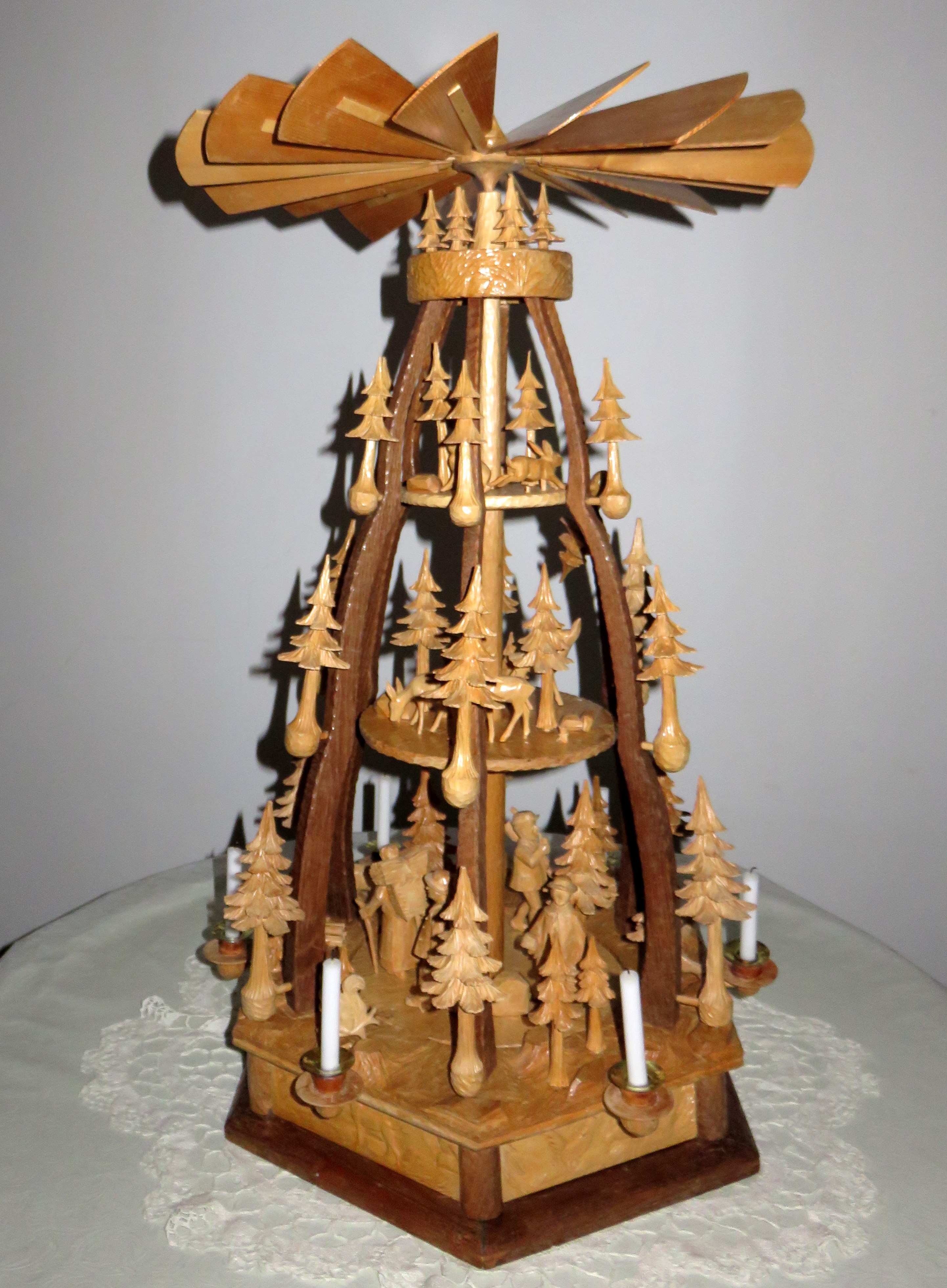 Dismountable Christmas Pyramid, ore mountain folk art of 1960.